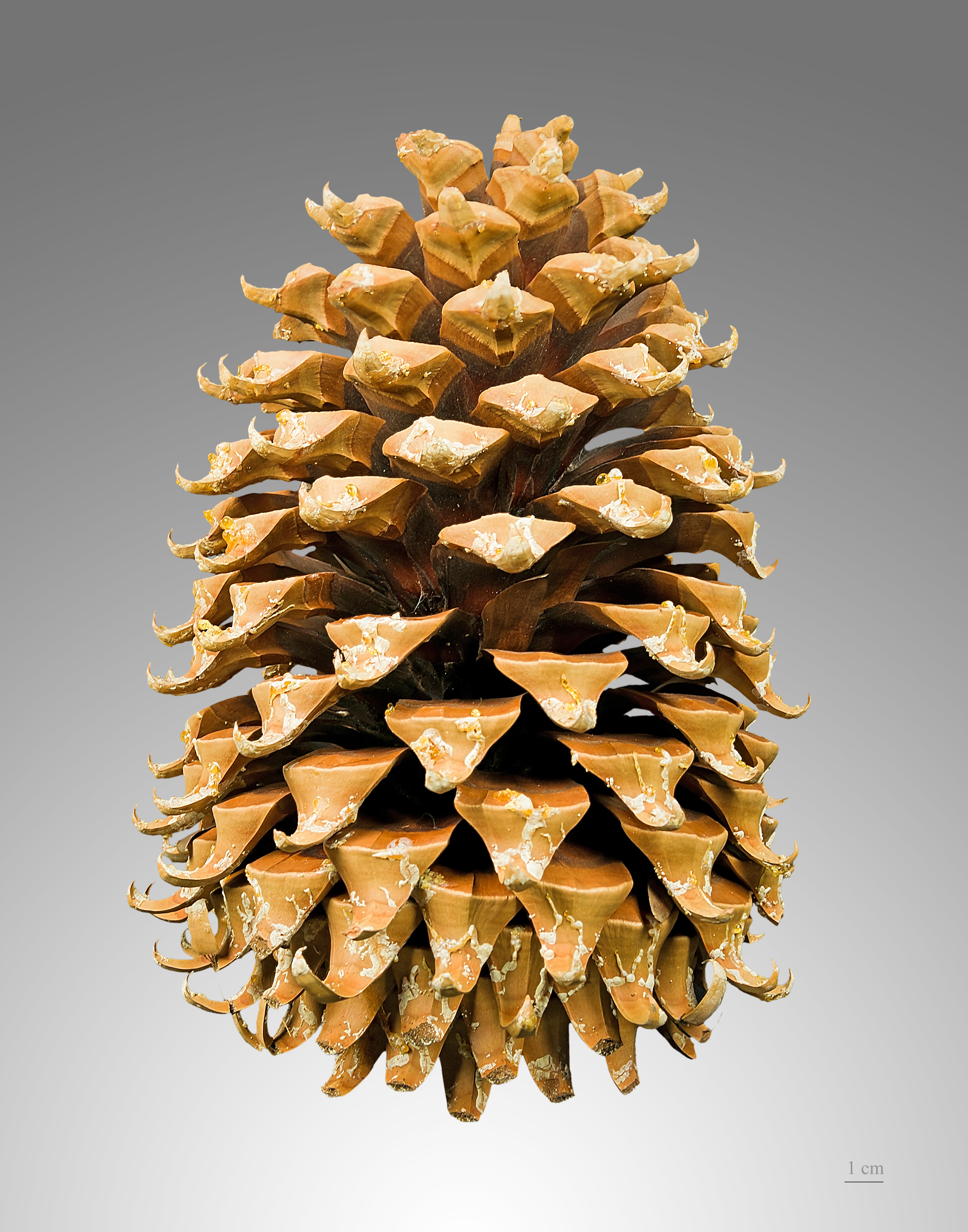 Cone of Coulter Pine